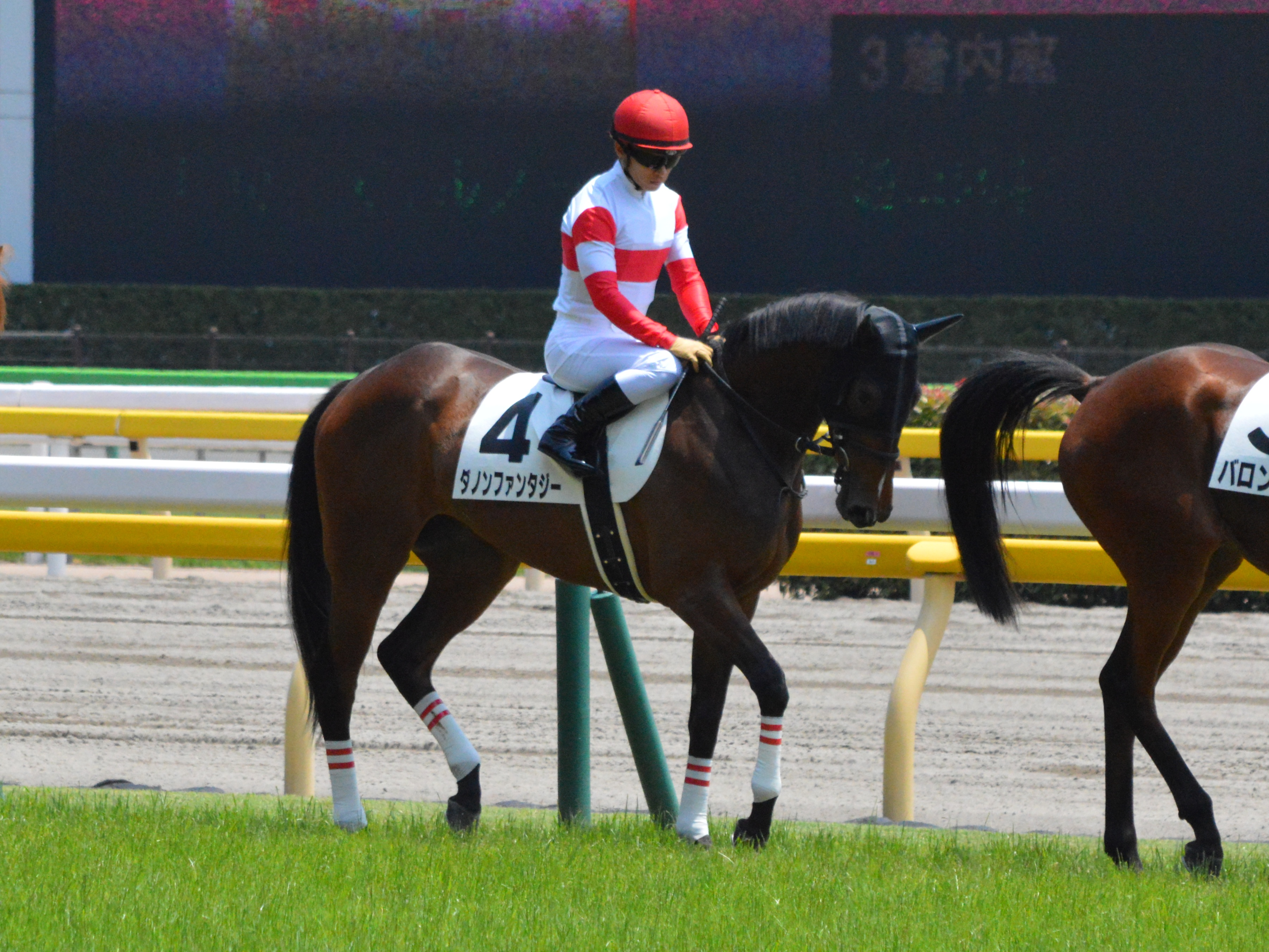 Japanese race horse Danon Fantasy at Tokyo racecourse. Tokyo (JPN) 3 Jun 2018Maiden (Turf) 1m Firm RankHorse NameOddsAgeWgtJockeyTrainer1stGran Alegria (JPN)4/5FC28-7Christophe Patrice LemaireKazuo Fujisawa2ndDanon Fantasy (JPN)19/10C28-7Yuga KawadaMitsumasa NakauchidaOthers are omitted. (15 horses entered in a race.)